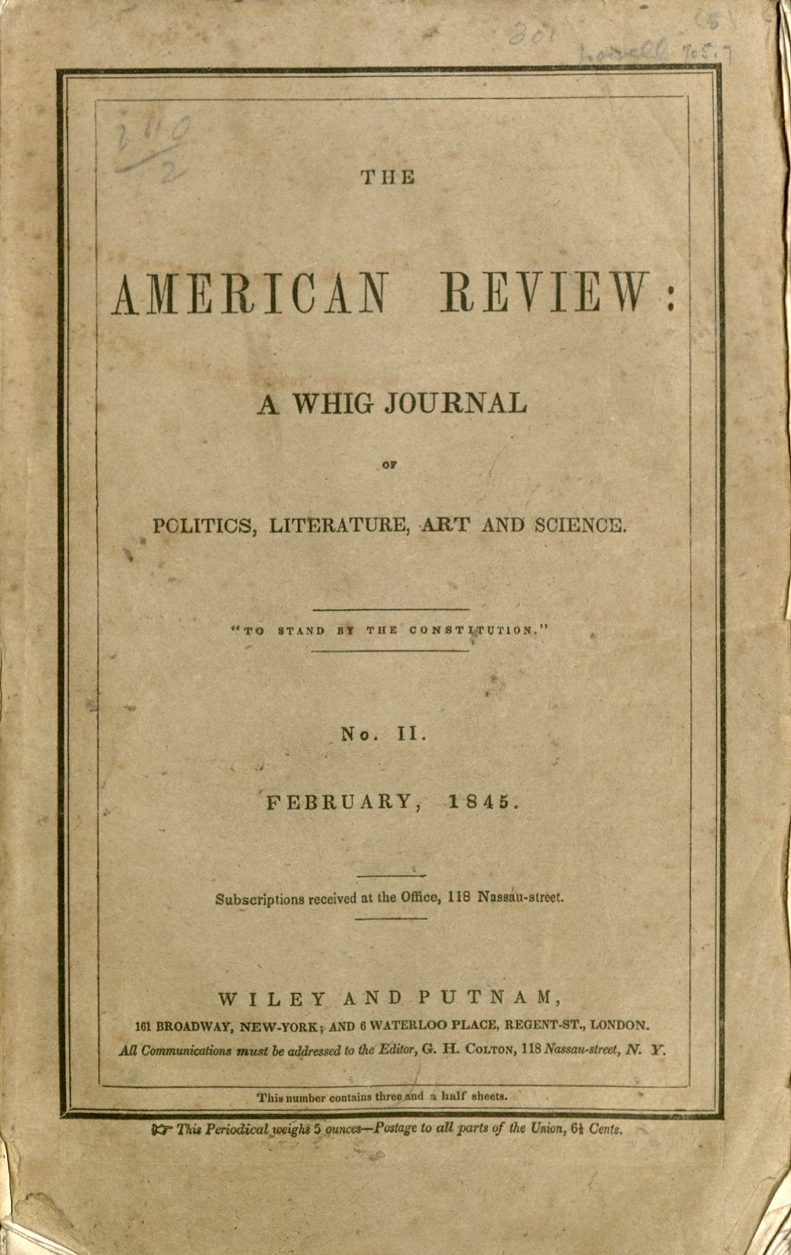 Title page for the American Review: A Whig Journal issue for February 1845. This issue included the poem "The Raven" by Edgar Allan Poe (credited to "Quarles"). Lowell 705.7, Houghton Library, Harvard University